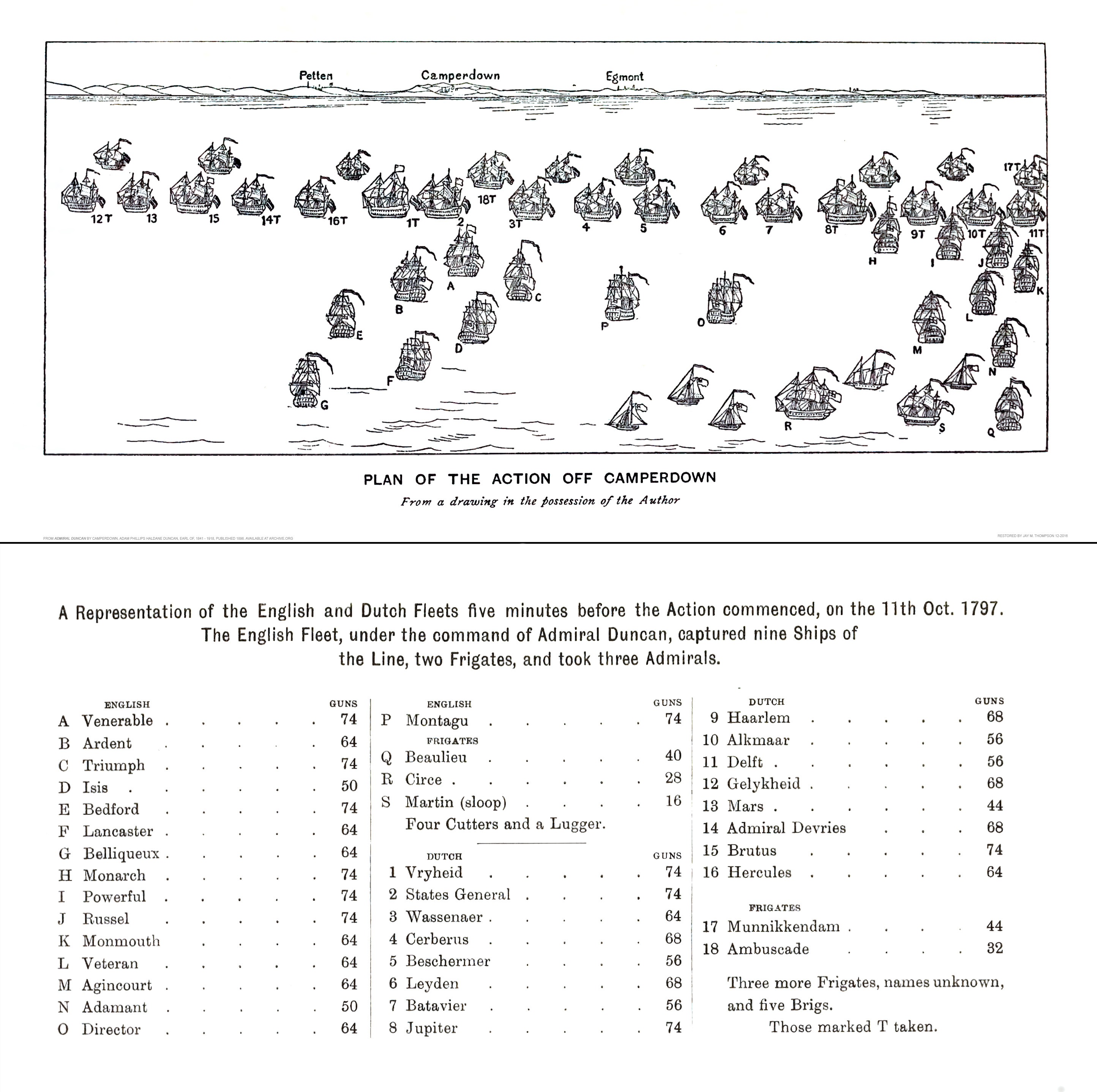 Drawing of Admiral Duncan's attack on the Dutch line from the biography written by Duncan's son, published in 1898 and assumed to be the most accurate diagram of the battle available. The book, titled simply "Admiral Duncan", is available at .